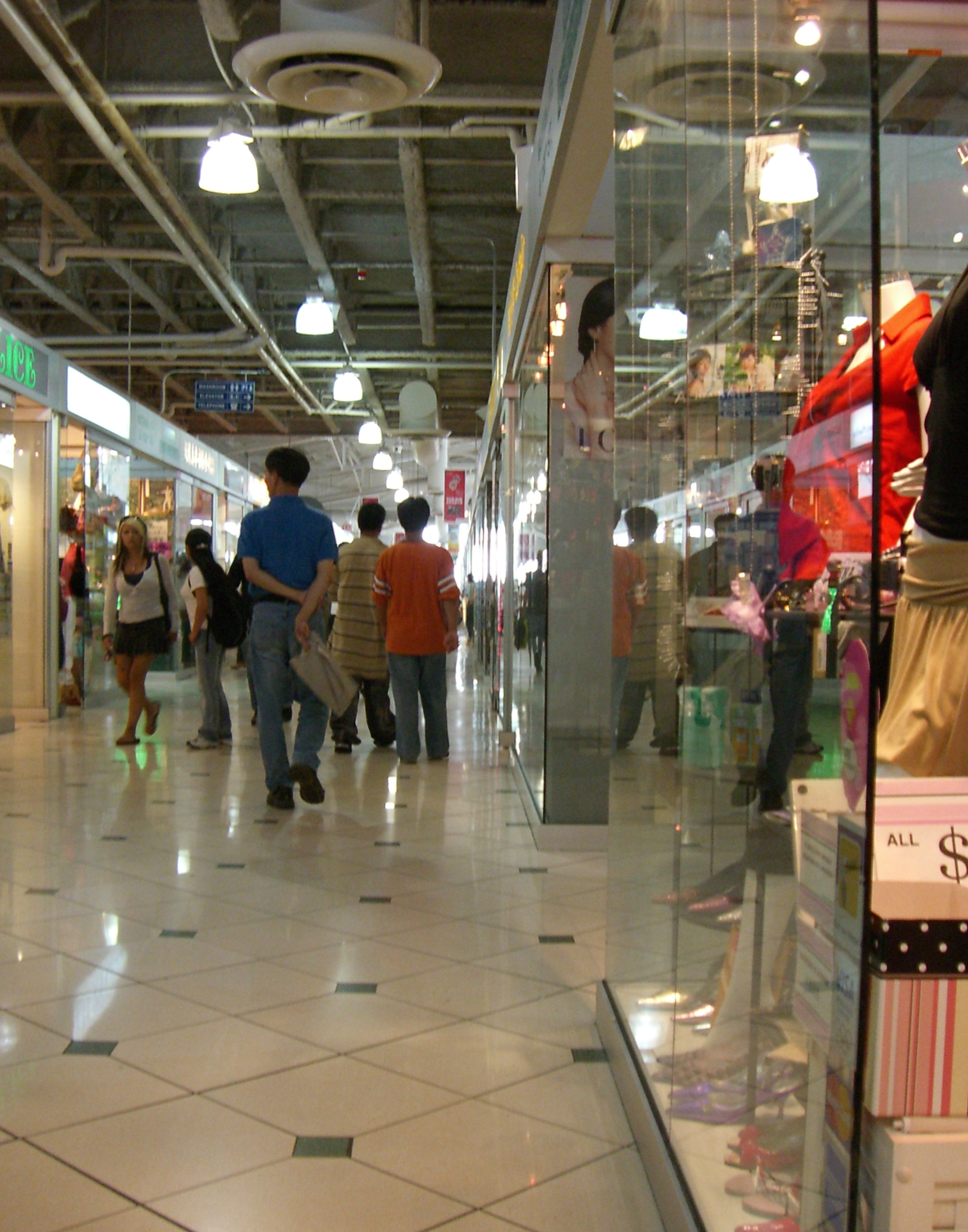 Inside Pacific Mall, Markham, on a Sunday afternoon.